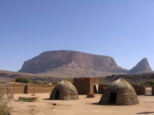 A view of mountains Hombori (left) and La Clé de Hombori (right) as seen from village of Hombori, Mali.